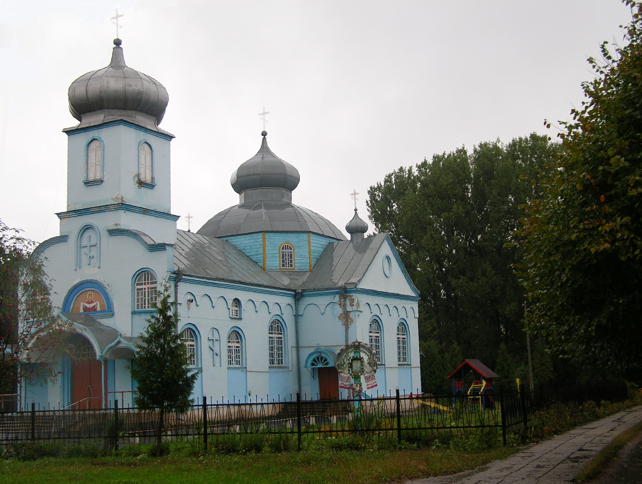 Eastern Orthodox church in Kivertsi, Ukrainian Orthodox Church - Kiev Patriarchate